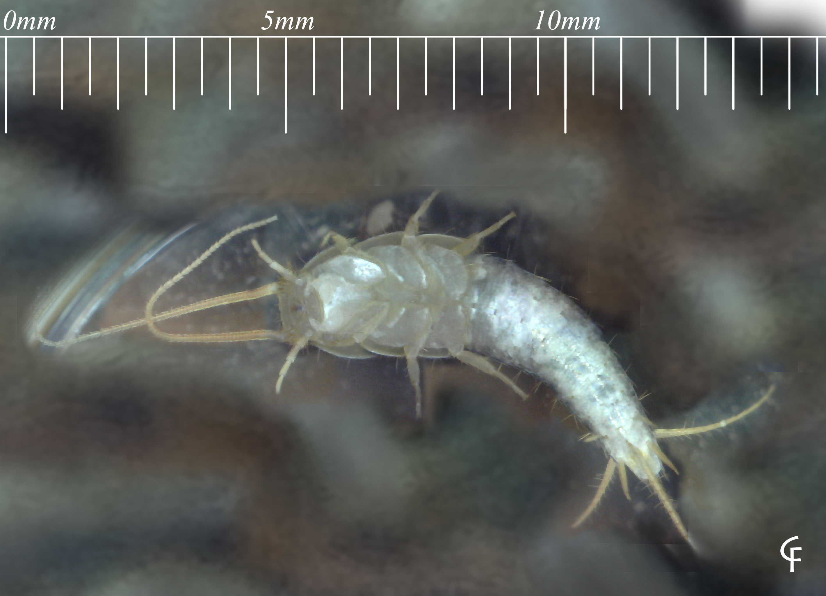 Lepisma saccharina in macro - X400